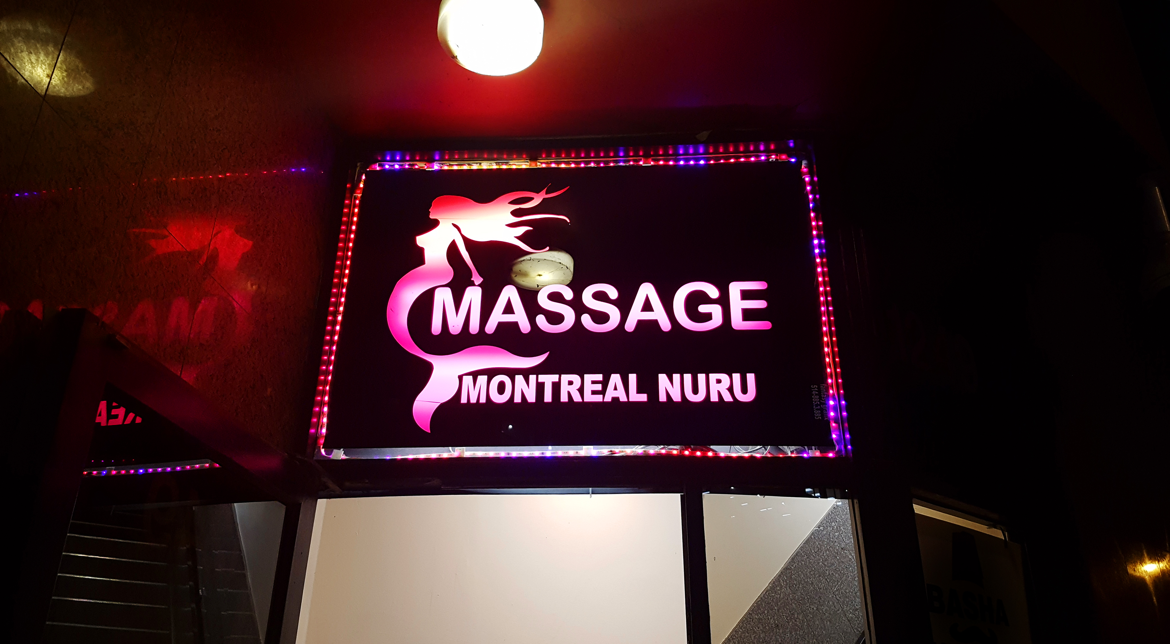 Neon sign of Montreal Massage Nuru located at 1249 Drummond Street downtown Montreal. Night shot taken July 21st, 2016.